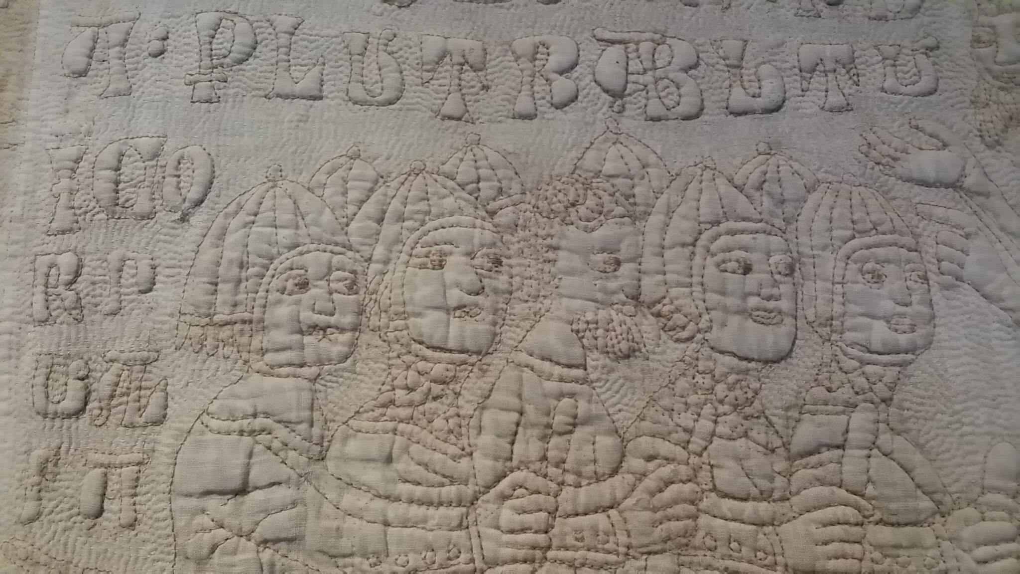 Photograph of the 14th century Tristan Quilt on display at the V&A Museum.